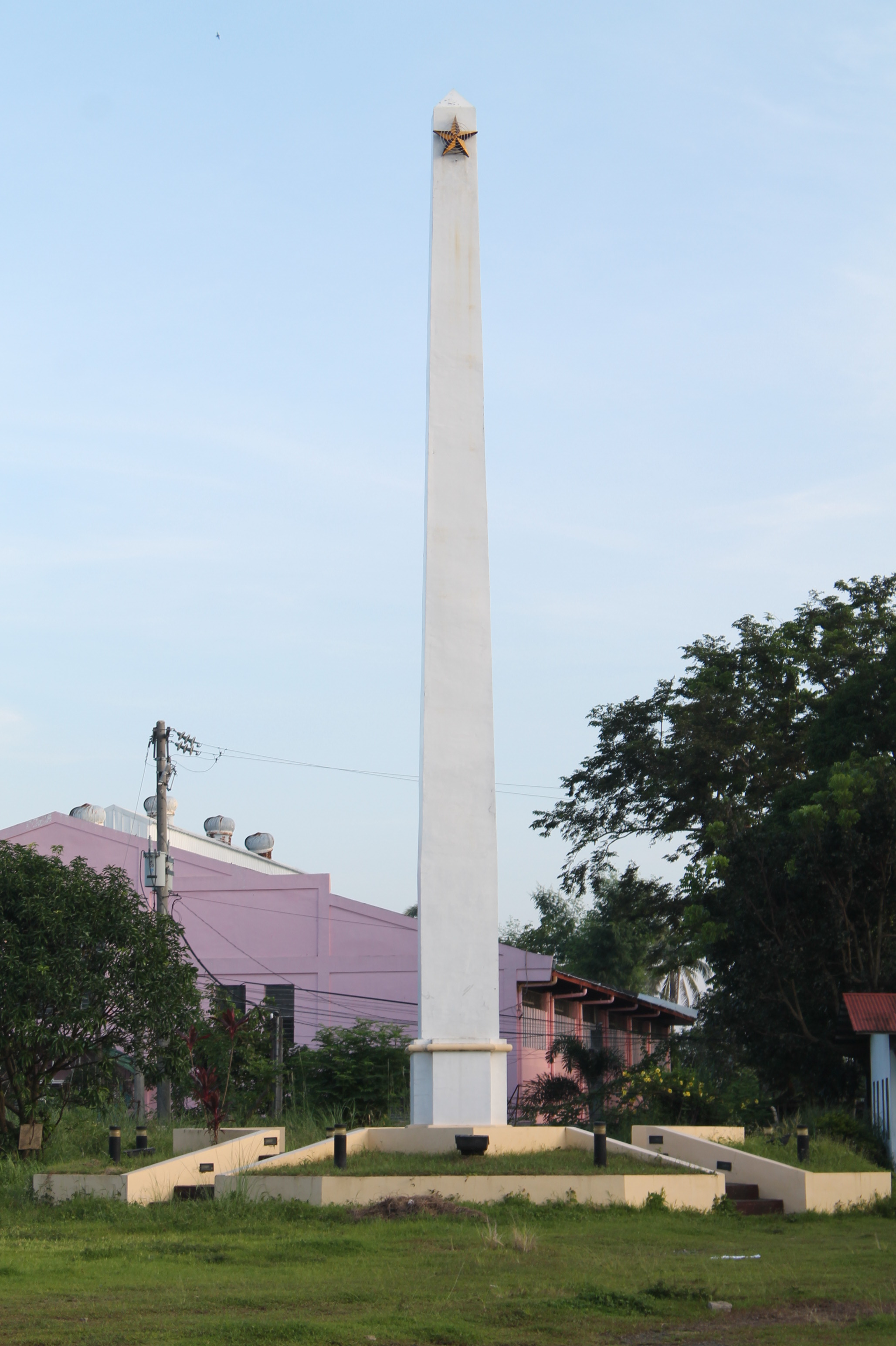 It is a tall structure located inside the campus grounds of the PUP Santo Tomas in Batangas province. It is a replica of the Mabini Obelisk in PUP Sta. Mesa, Manila but without the statue of Mabini.